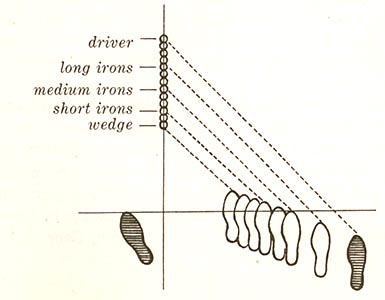 Golf stance